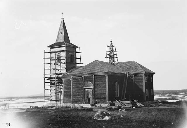 Muonio church in Muonio, Grand Duchy of Finland, Russian Empire, in the 1880s